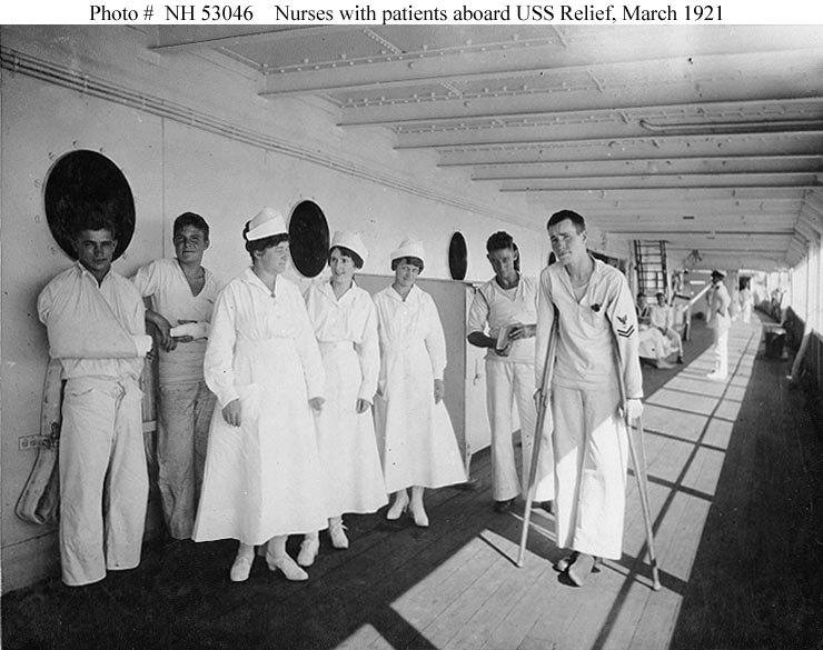 Nurses with their patients, on deck in March 1921.